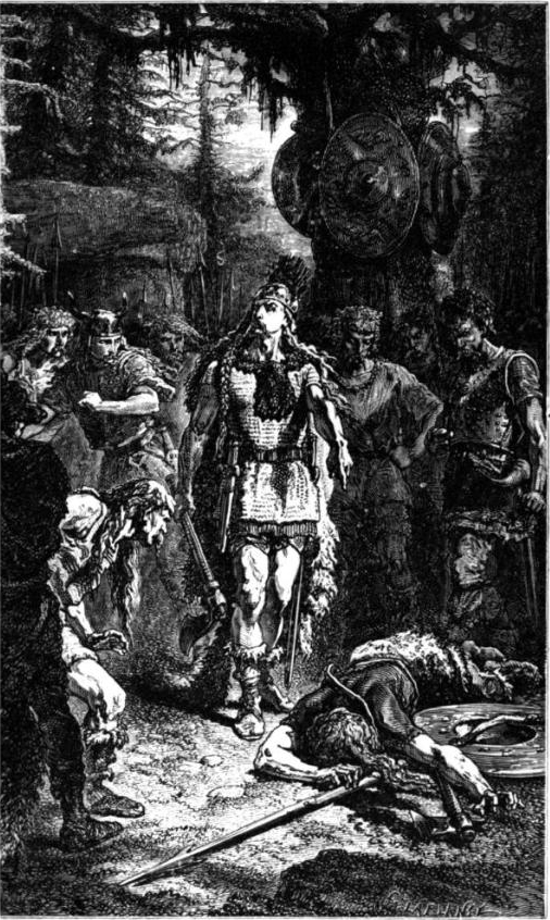 “Thus diddest thou to the vase of Soissons!“